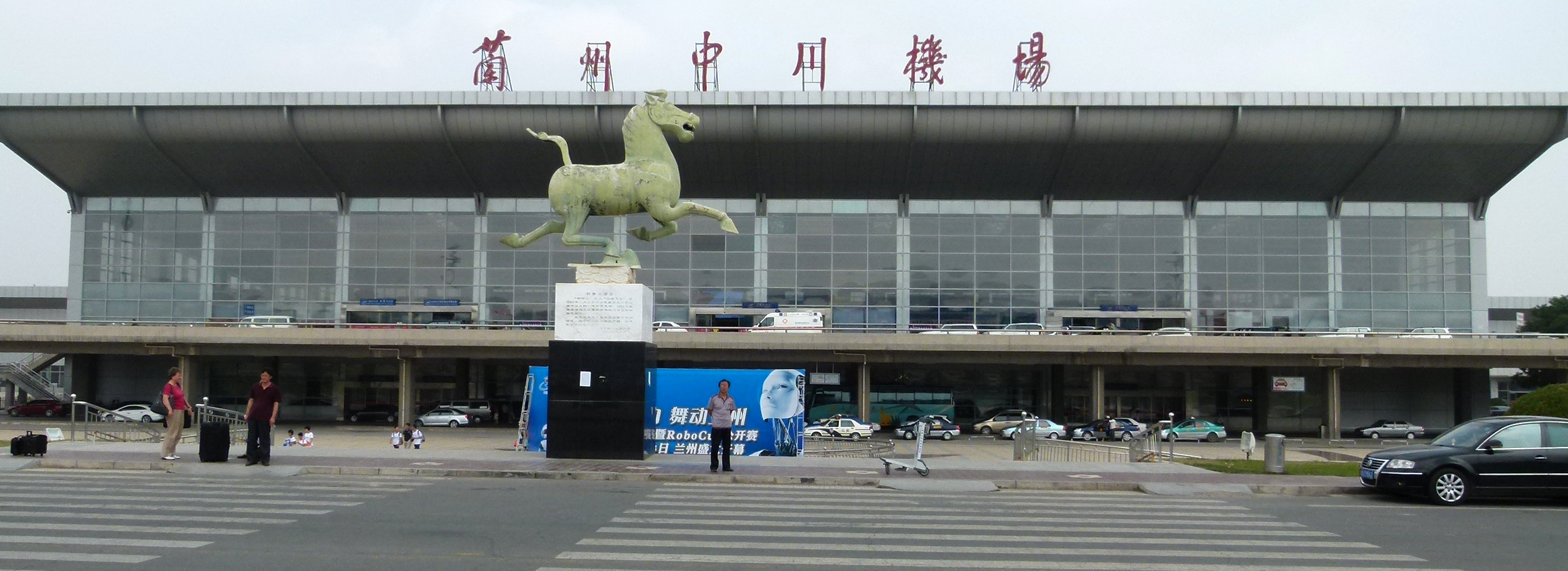 Airport Lanzhou (China)